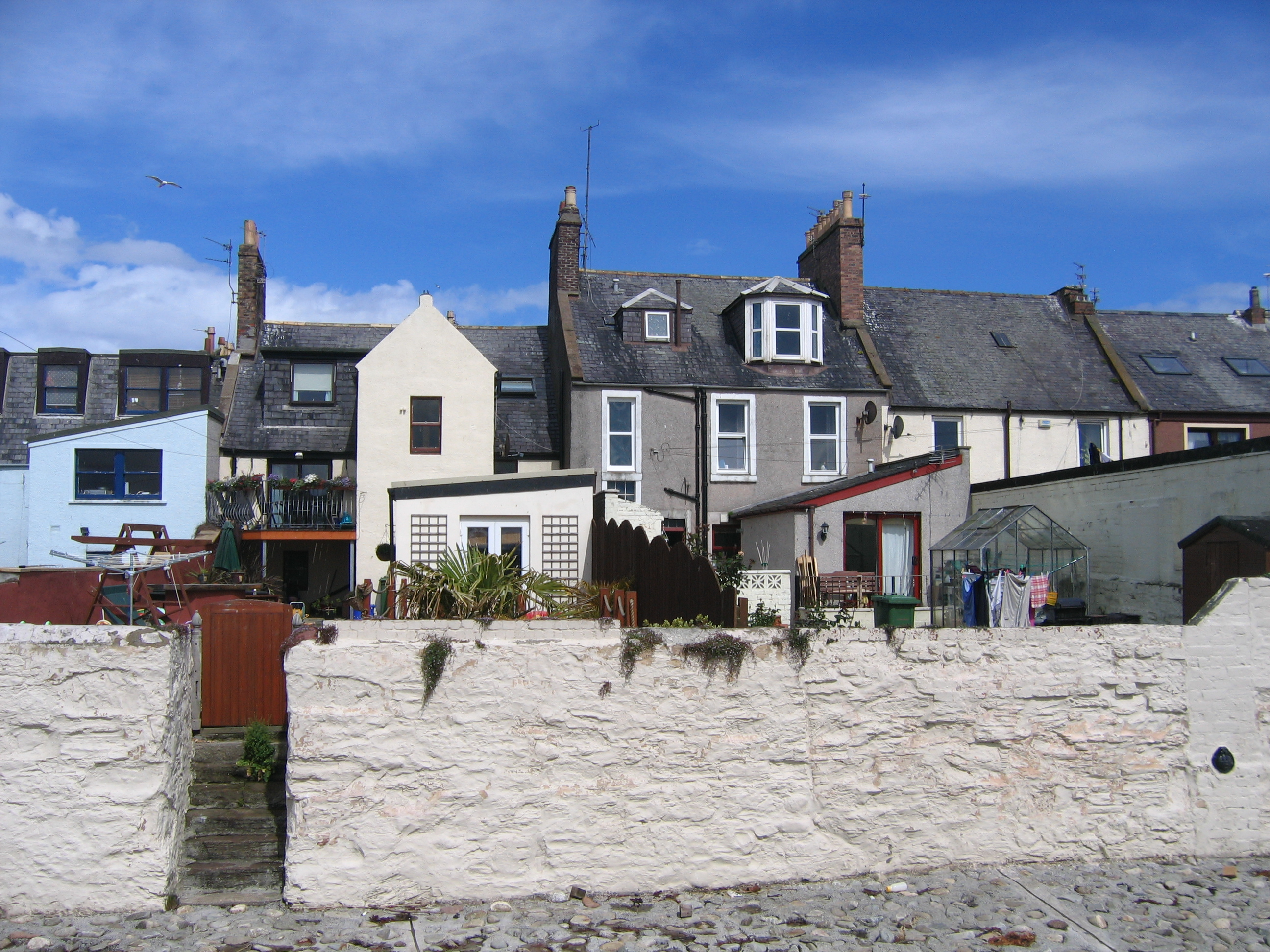 Fisherman houses in Arbroath